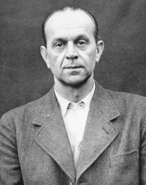 Portrait of Adolf Pokorny as a defendant in the Medical Case Trial at Nuremberg.